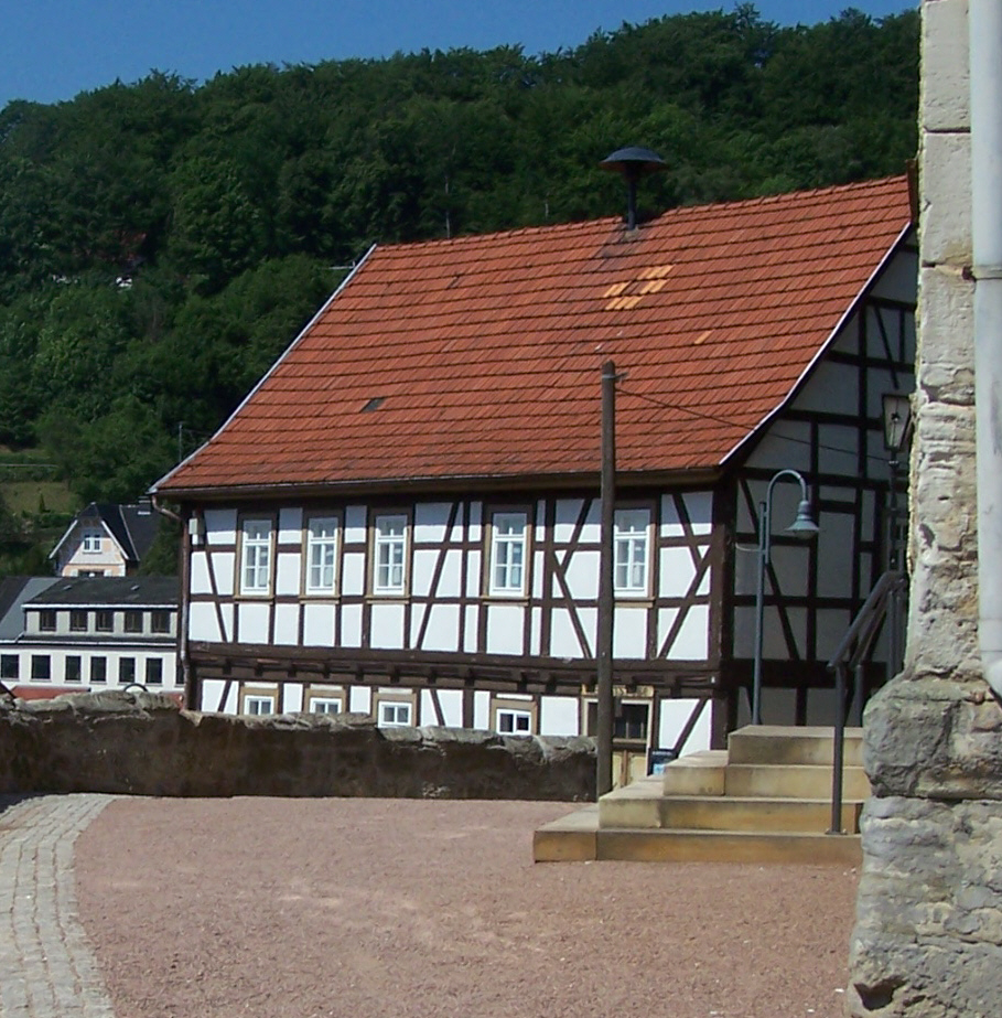 The museum in Steinbach village.